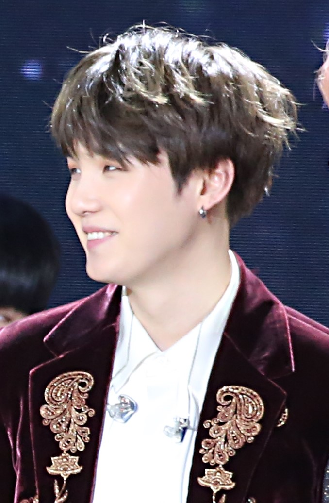 Suga at the 31st Golden Disk Awards